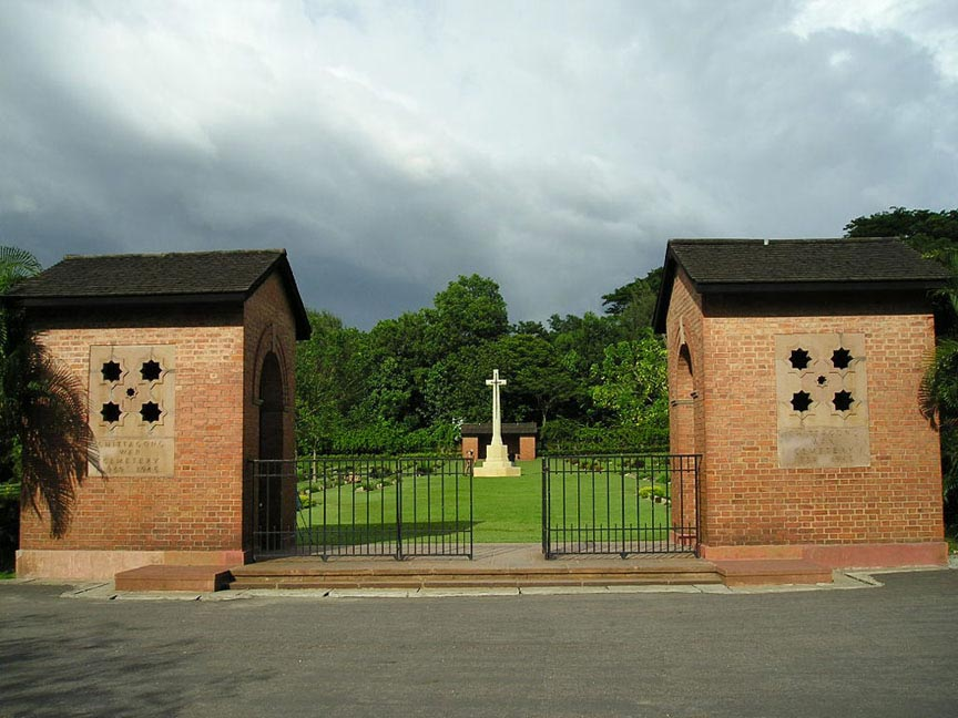 Chittagong War Cemetary, Chittagong, Bangladesh